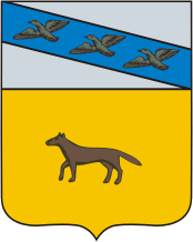 Oboyan (Kursk oblast), coat of arms (1780)